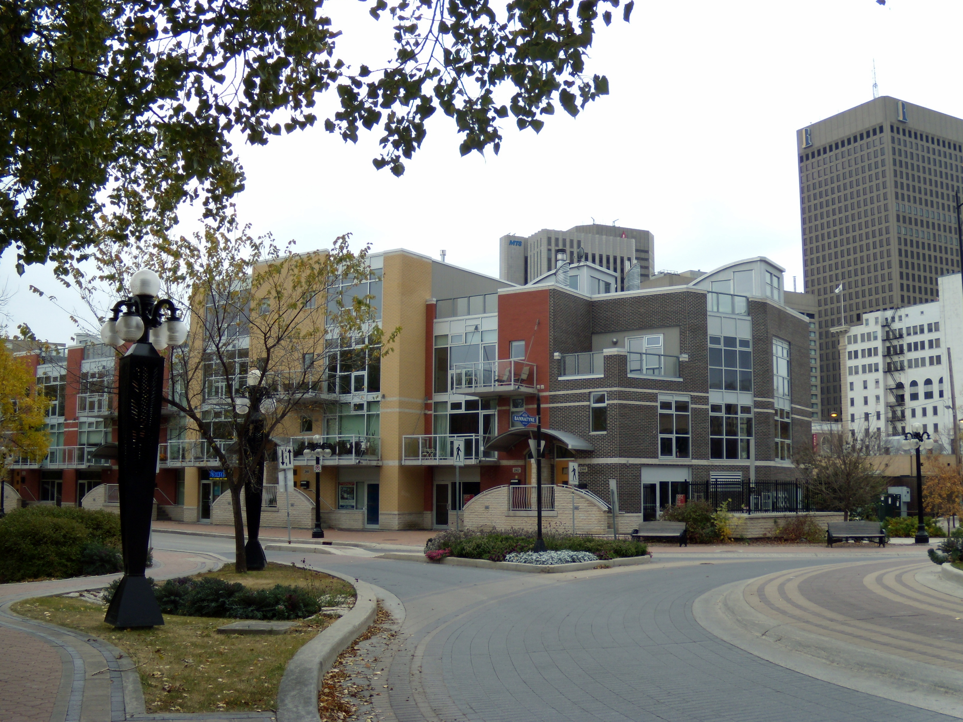 Winnipeg's Waterfront district condominiums with downtown's Richardson building and MTS skyscraper in background